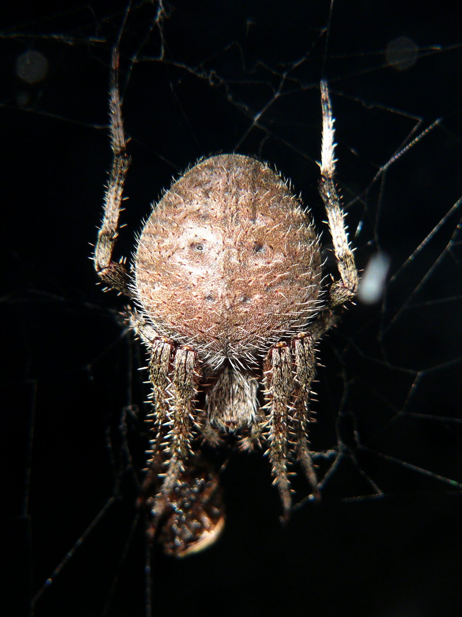 A female Hentz's Orbweaver spider (Neoscona crucifera) at the center of her web. Photo taken in Caldwell County, NC, USA with a Panasonic Lumix DMC-FZ50 and a Tiffen +2 Dioptic Lens.